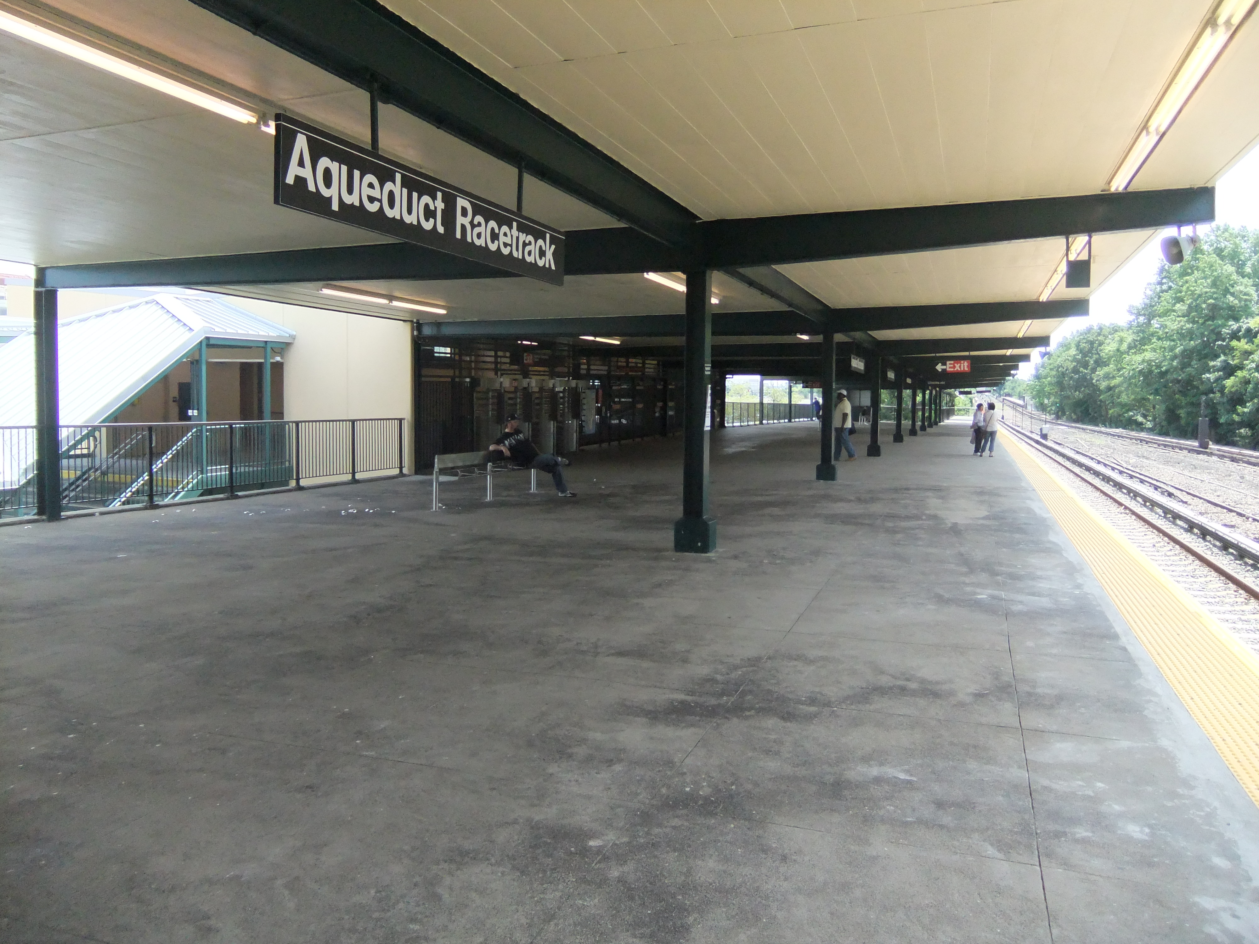 Northern half of the platform for the Aqueduct Racetrack station.